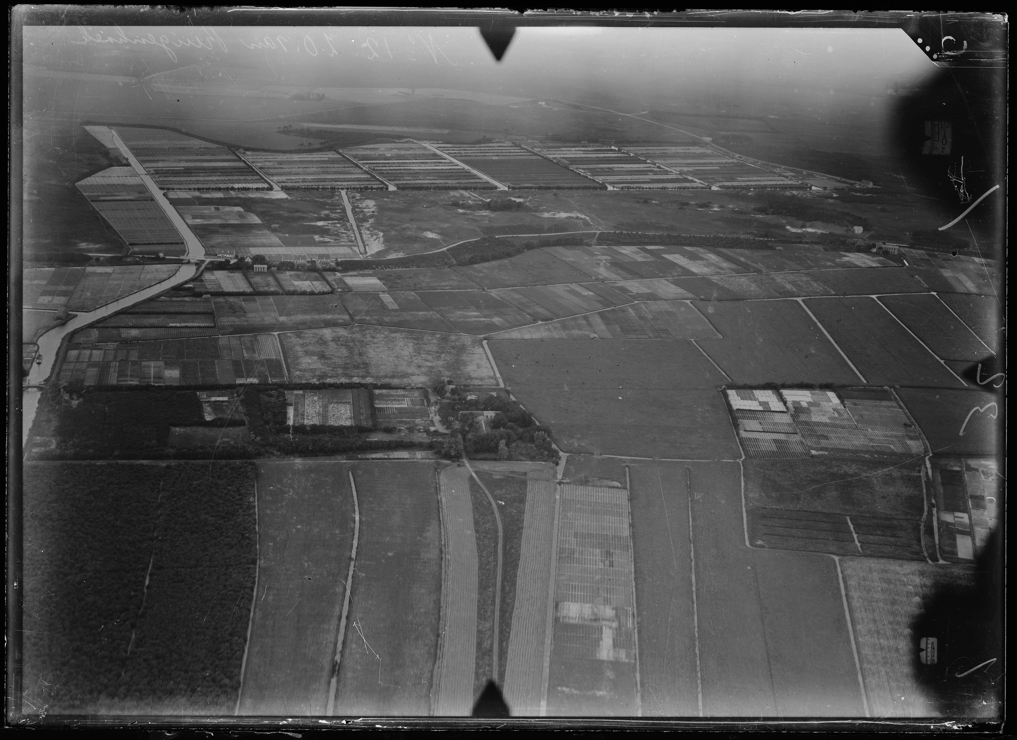 Aerial photograph of Ruigenhoek, Noordwijkerhout, The Netherlands